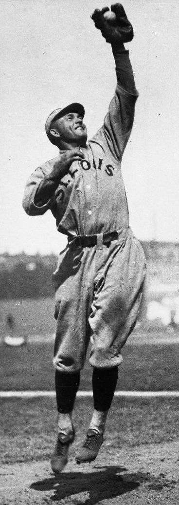 Professional baseball player Rogers Hornsby